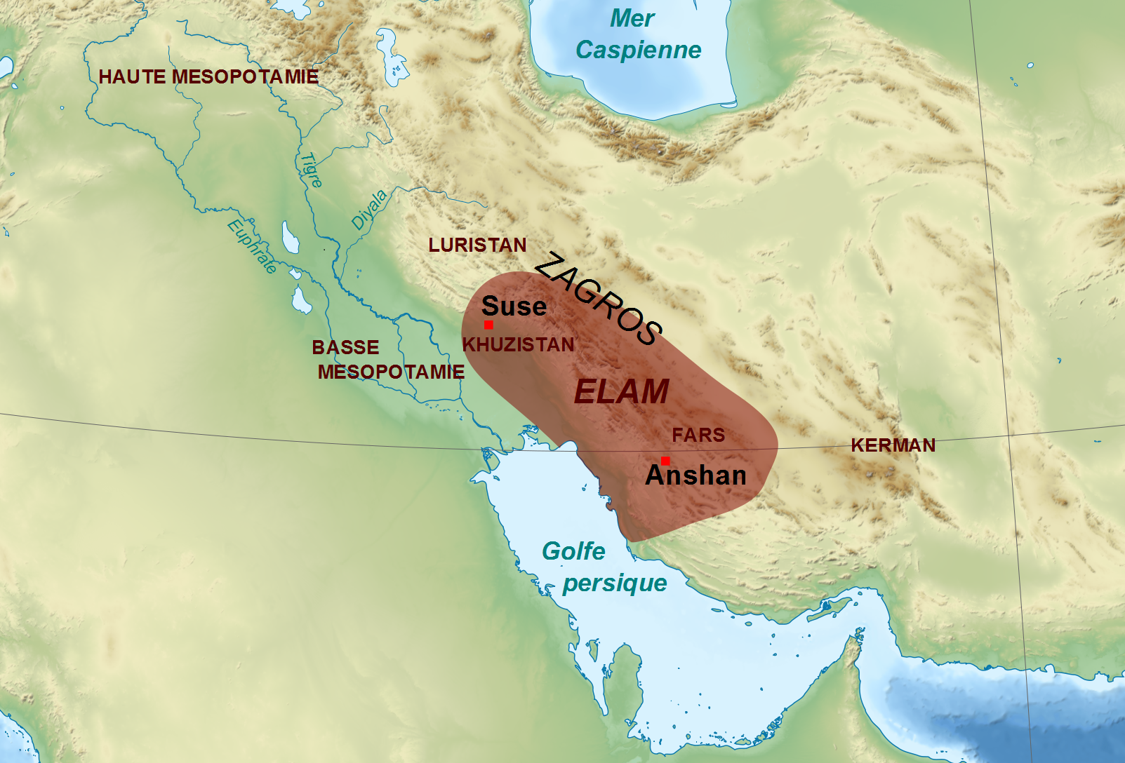 Elam location map.